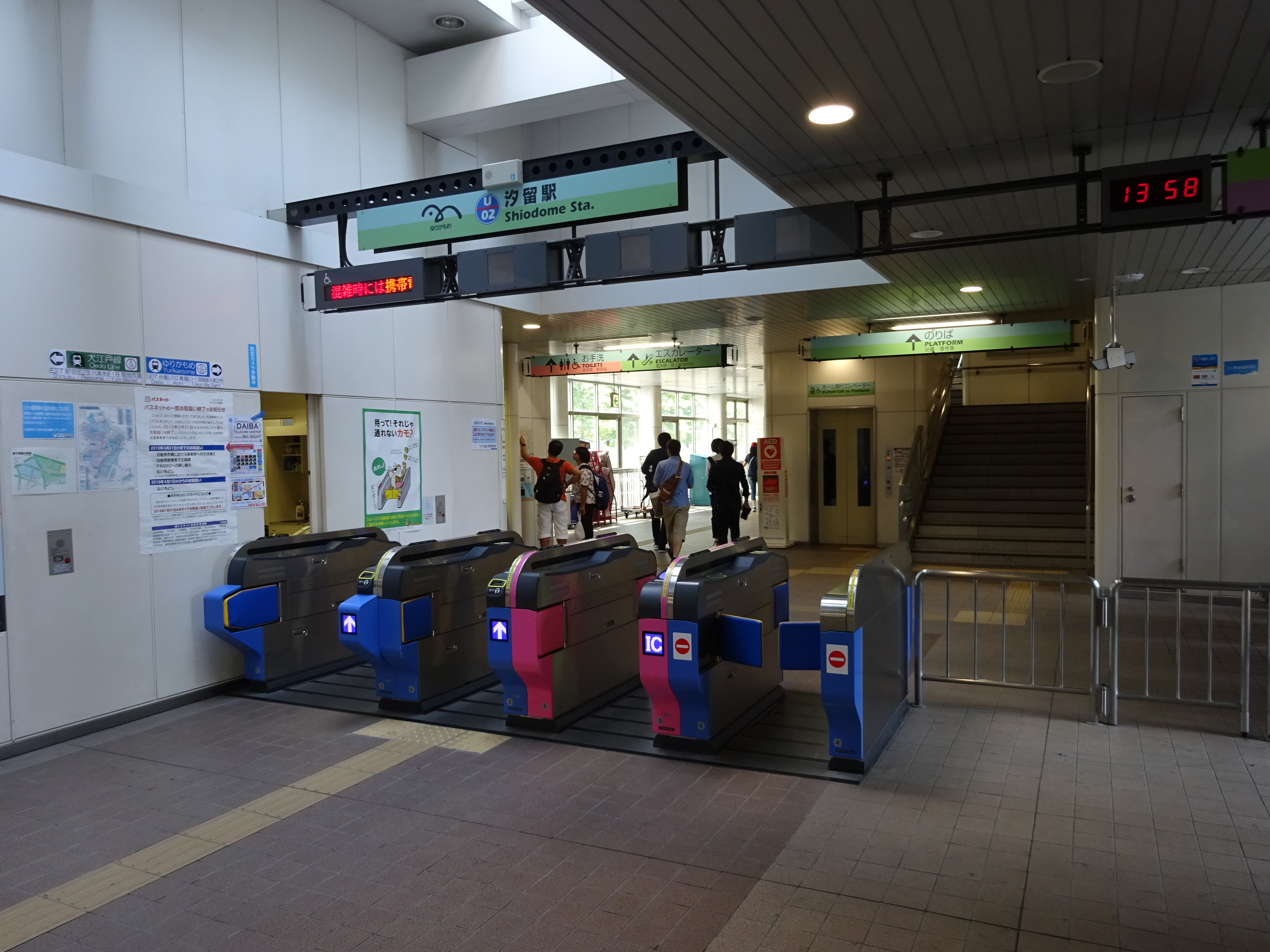 Ticket barriers of Shiodome Station(Yurikamome)